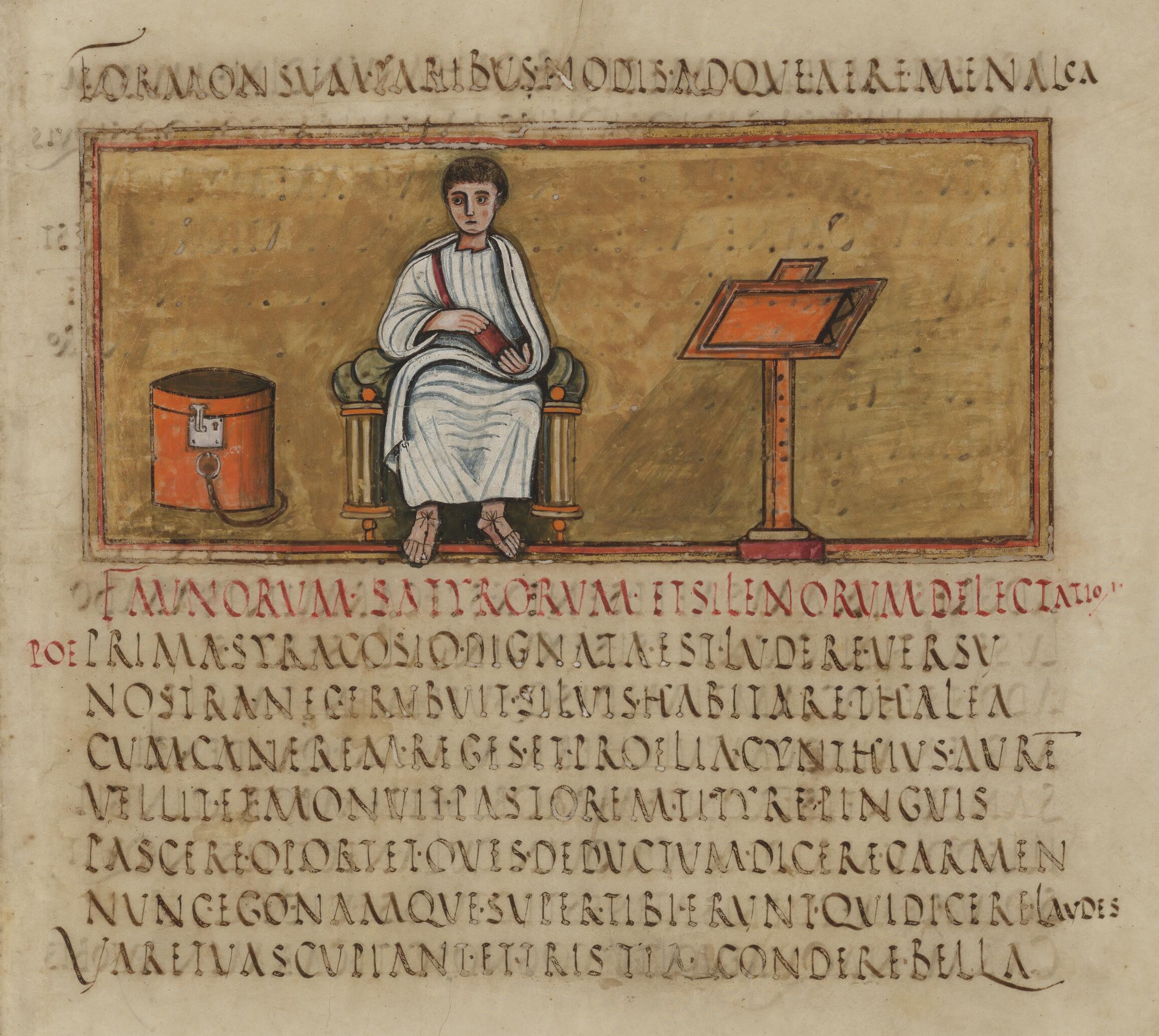 Folio 14r of the Vergilius Romanus.